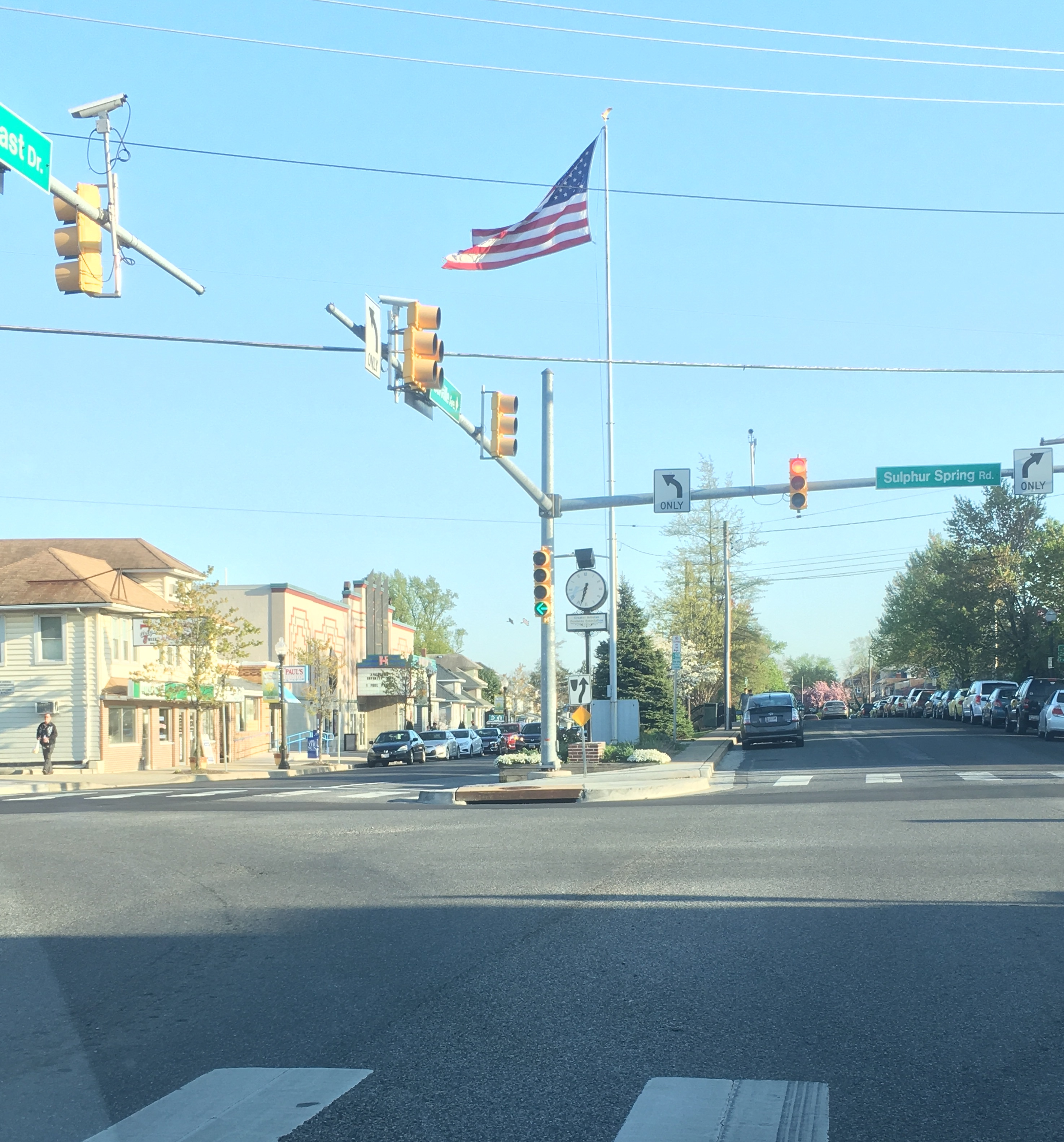 Looking at East Drive and Carville Avenue from Sulphur Spring Road.